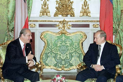 THE GRAND KREMLIN PALACE, MOSCOW. Vladimir Putin with Thomas Klestil, Austria's President.